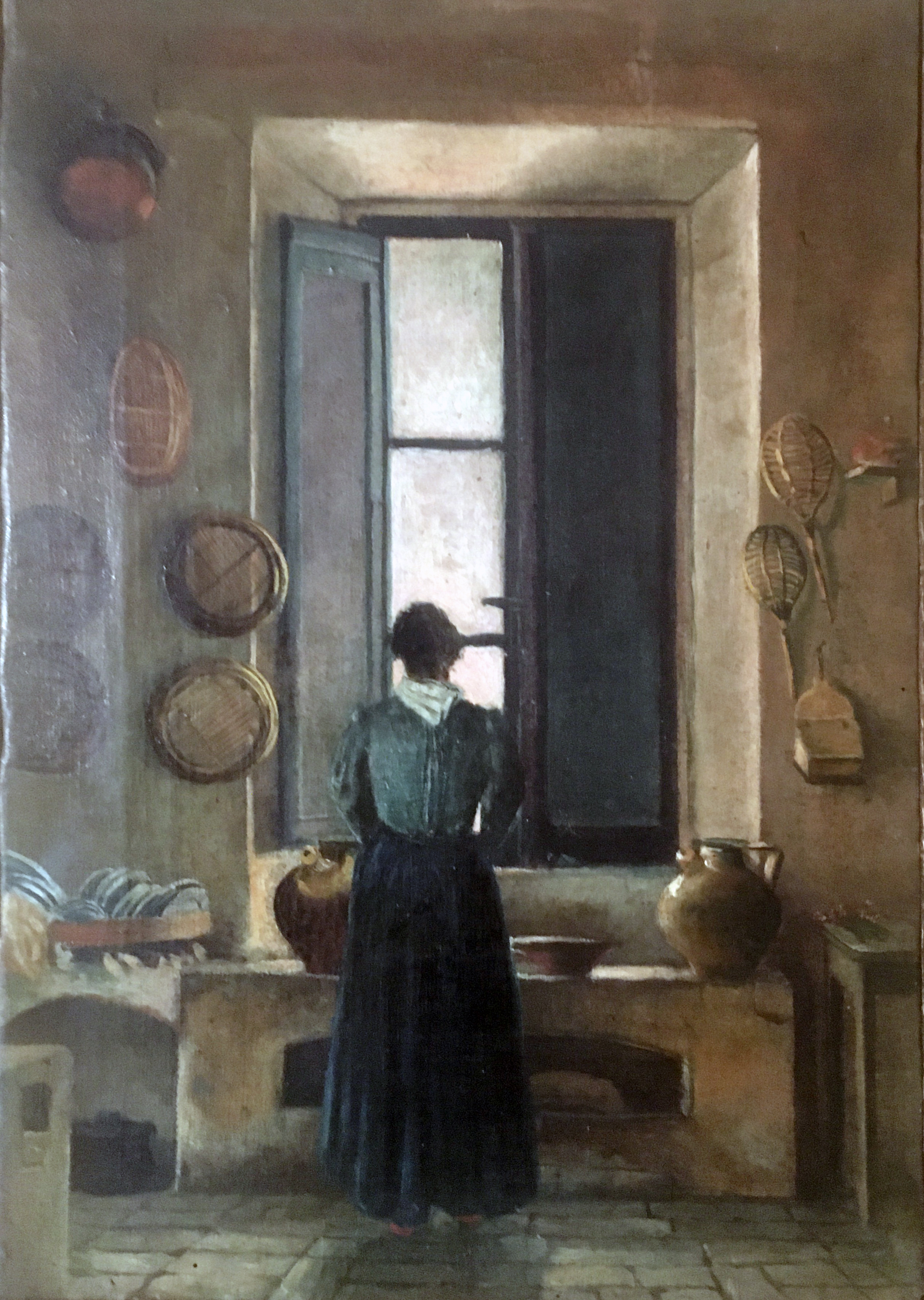 woman at the window, oil on canvas, 1895, private collection